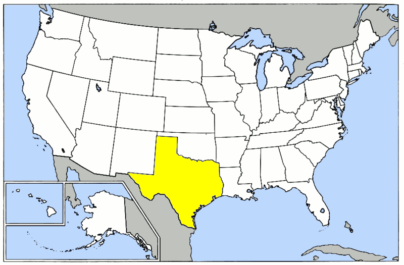 77th Flying Training Wing (World War II) - Map Based upon for basemap; Lineage and History of 31st Flying Training Wing (World War II); United States Air Force Historical Research Agency Document, Maxwell AFB, Alabama